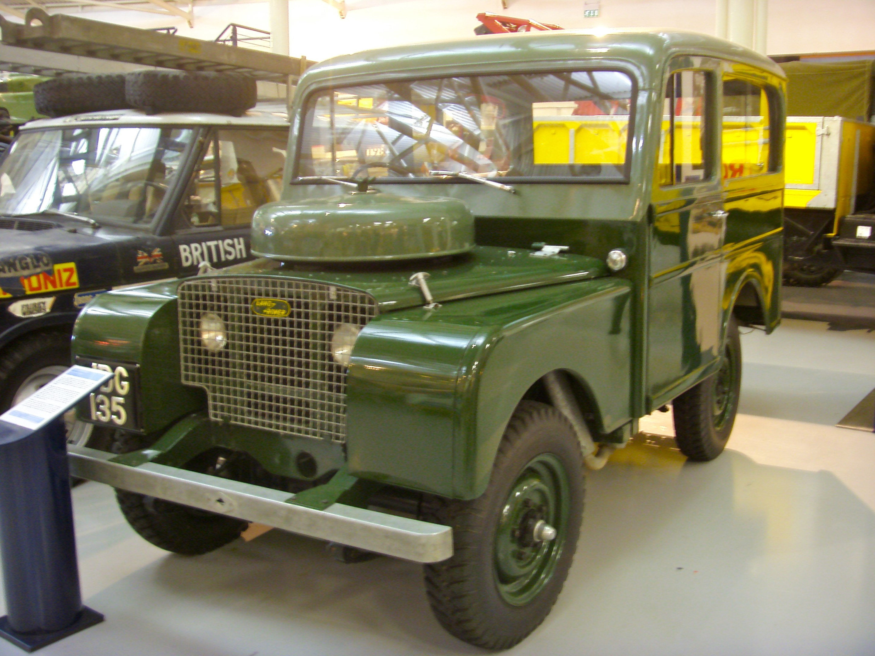 1948 Land Rover 80 Series I with Tickford estate coachwork at the Heritage Motor Centre, Gaydon